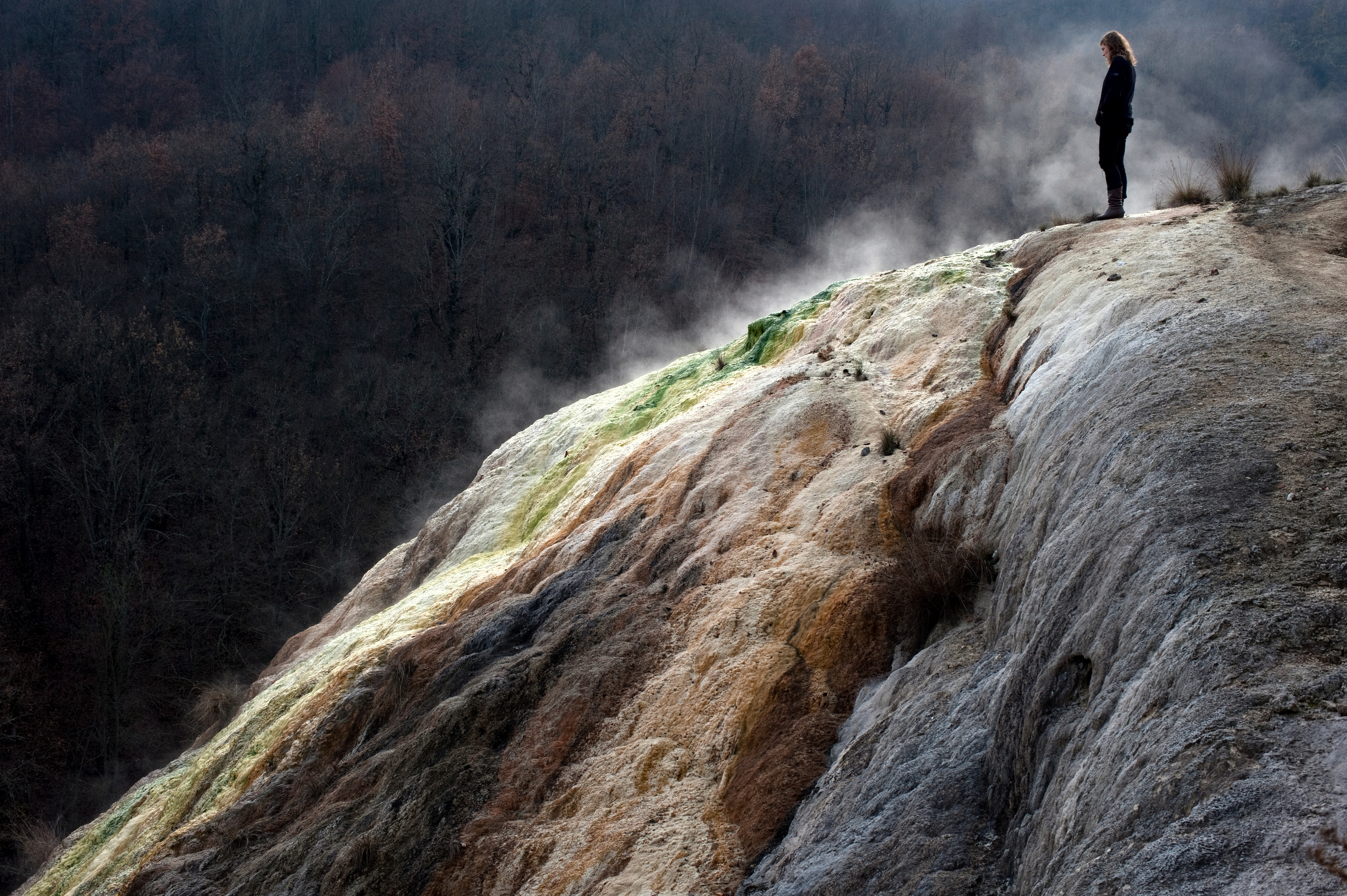 Thermes - Xanthi hot-spa springs, Xanthi Prefecture, Greece.